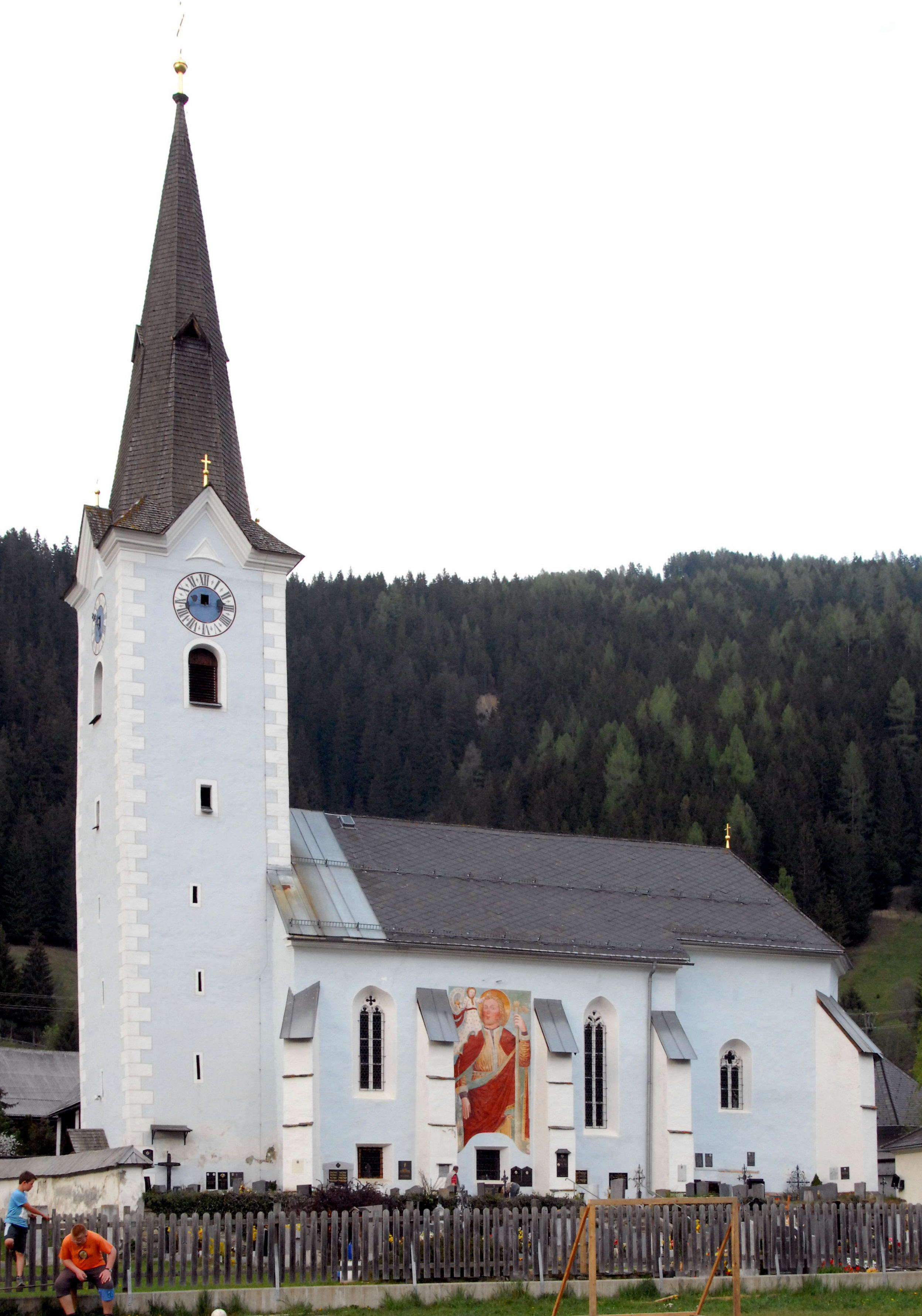 Catholic parish church Saint Margaret in Sankt Margarethen #1, municipality Reichenau, district Feldkirchen, Carinthia, Austria, EU